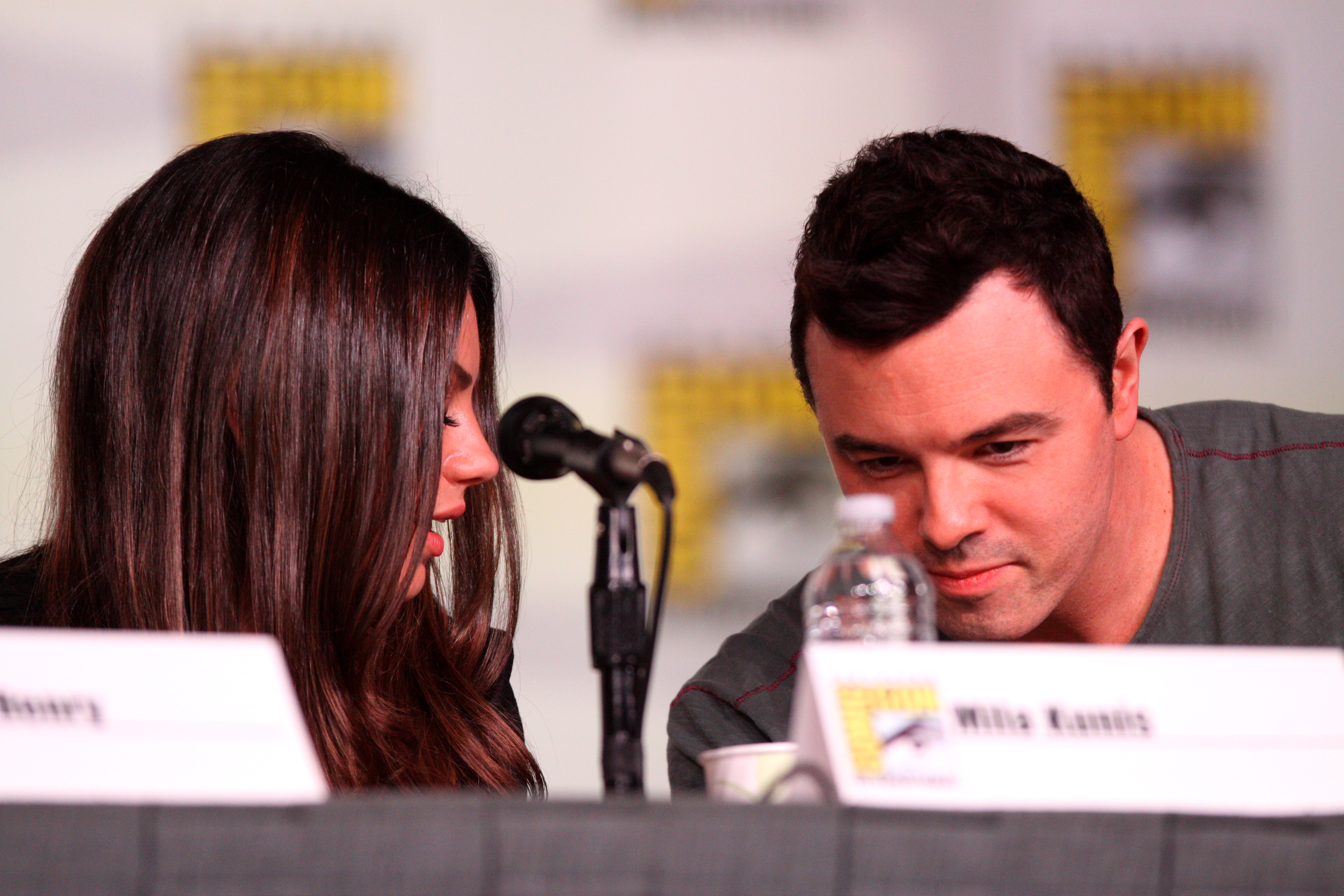 Mila Kunis & Seth MacFarlane speaking at the 2012 San Diego Comic-Con International in San Diego, California.